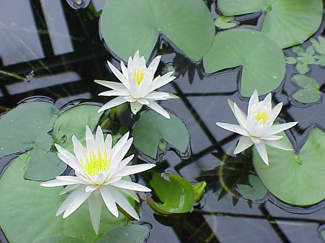 Species: Nymphaea odorata Family: Nymphaeaceae Image No. 2